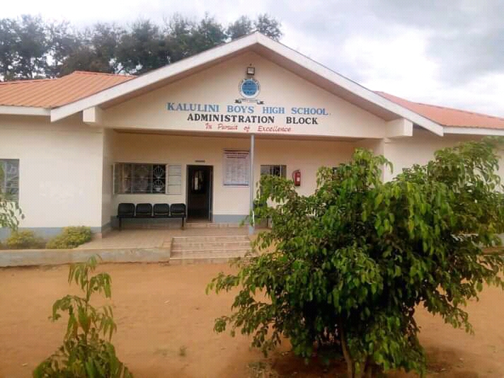 This is an image with the theme "Africa on the Move or Transport" from: Kenya